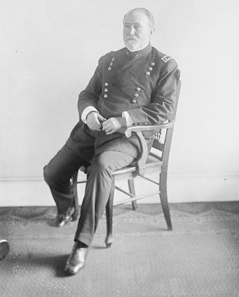 Frederick Dent Grant (1850 - 1912), general and United States minister to Austria